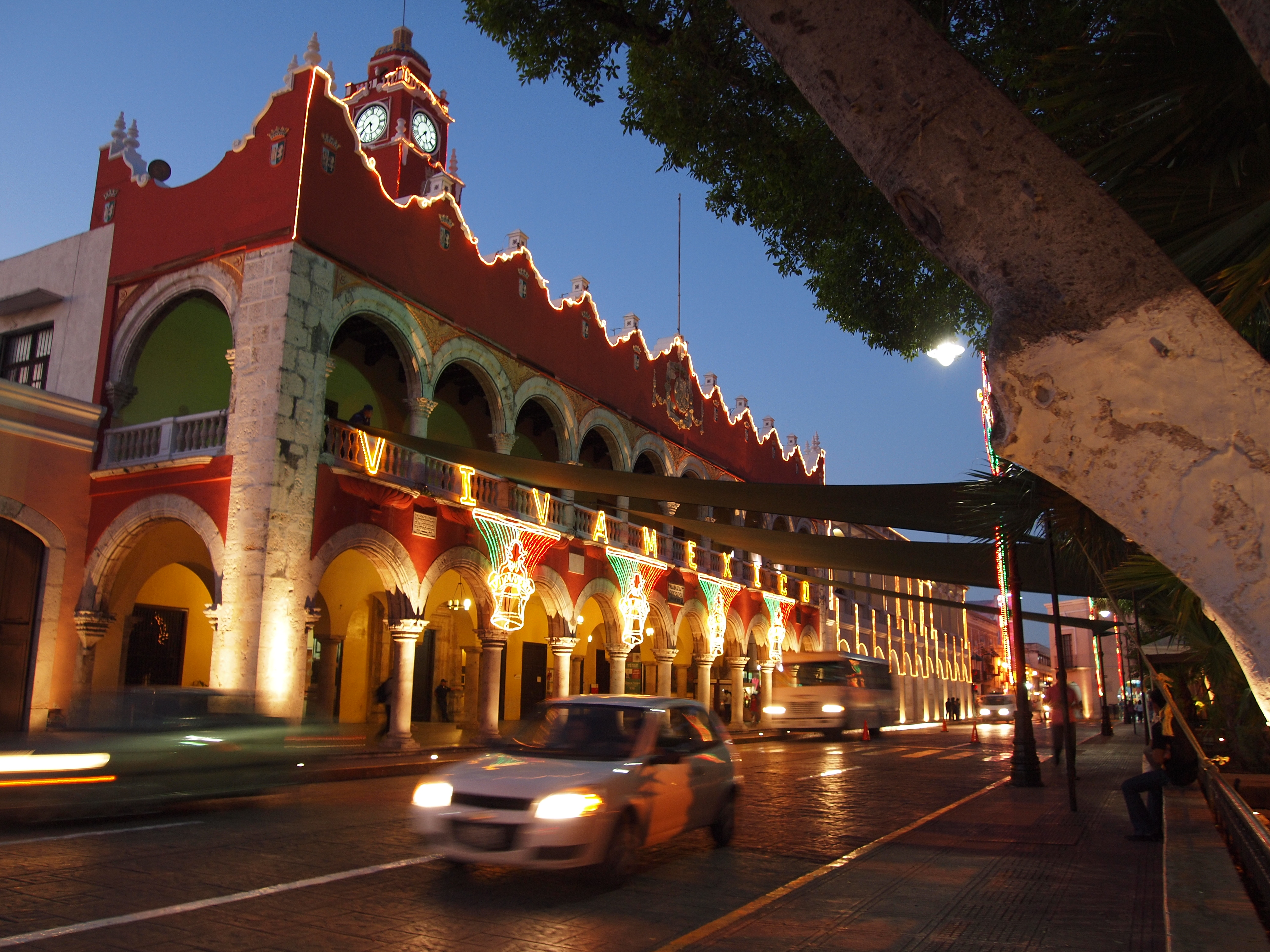 City Hall of Mérida in November 2010.